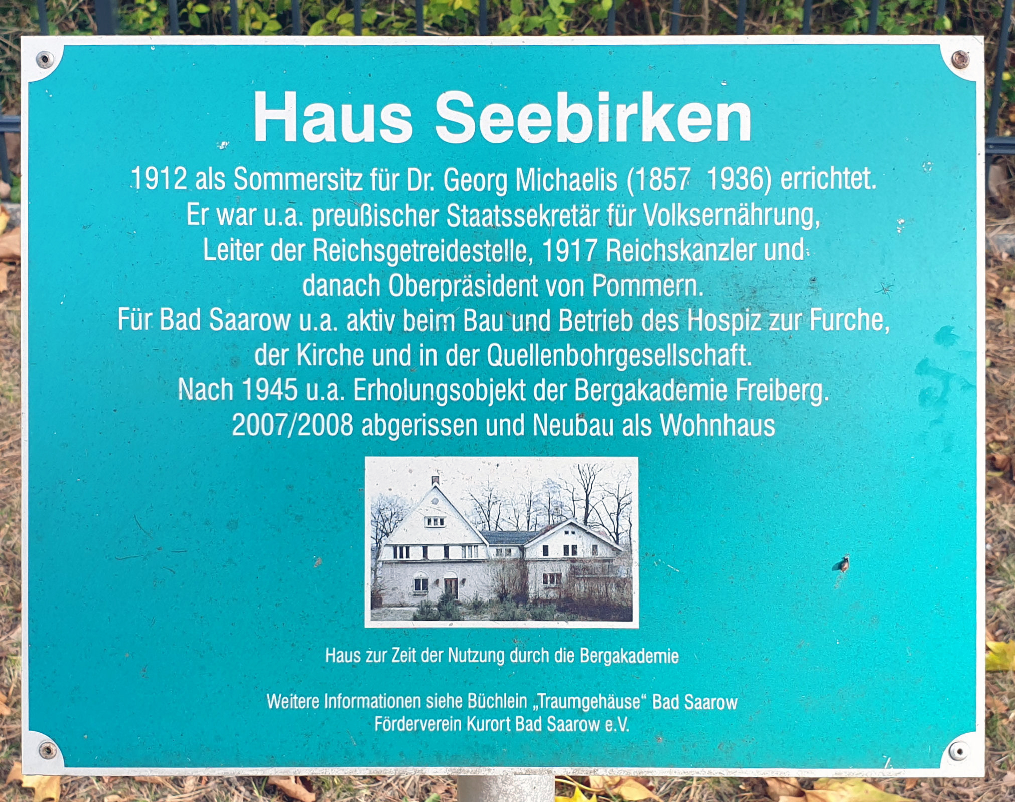 Memorial plaque, Haus Seebirken, Platanenstraße 1-15, Bad Saarow, Deutschland